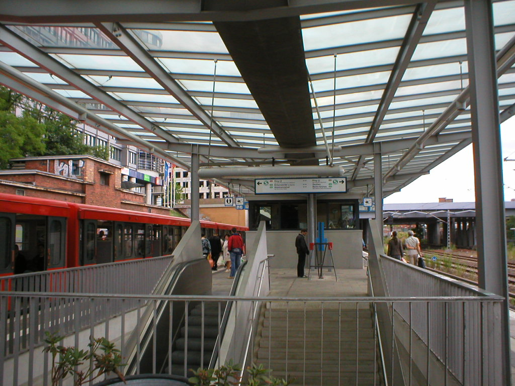 Berlin's S-Bahn station Landsberger Allee; Berlin, Germany